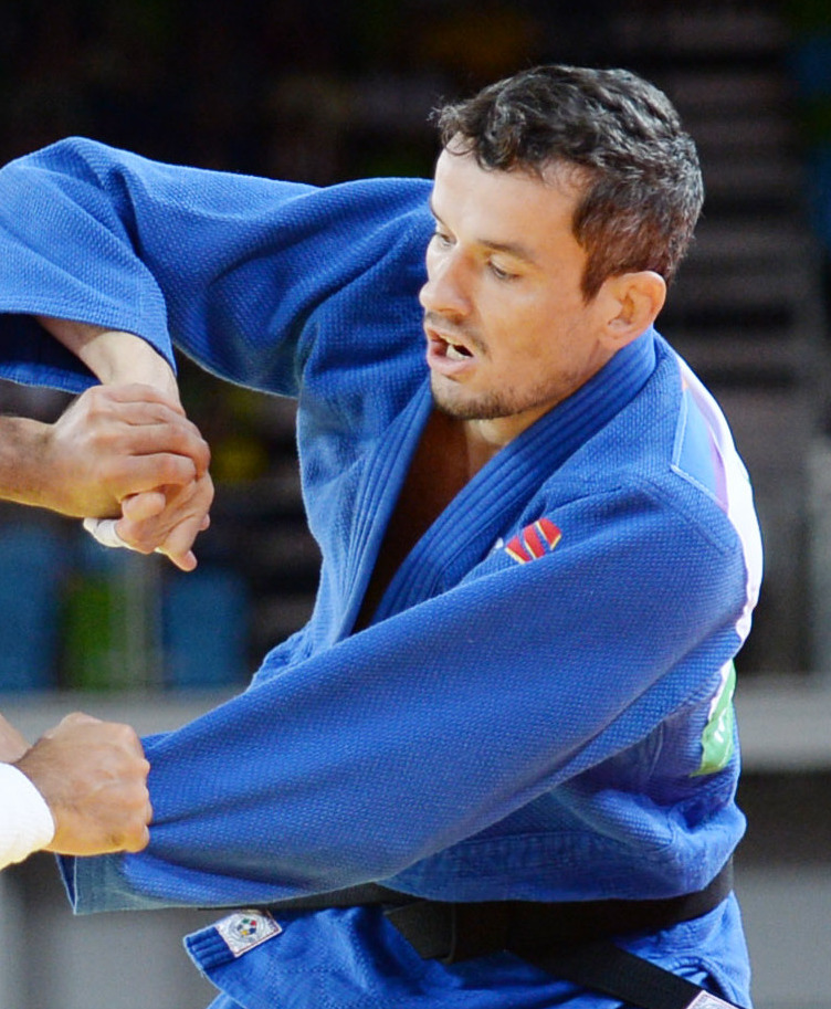 Judo at the 2016 Summer Olympics, Shikhalizade vs Uriarte